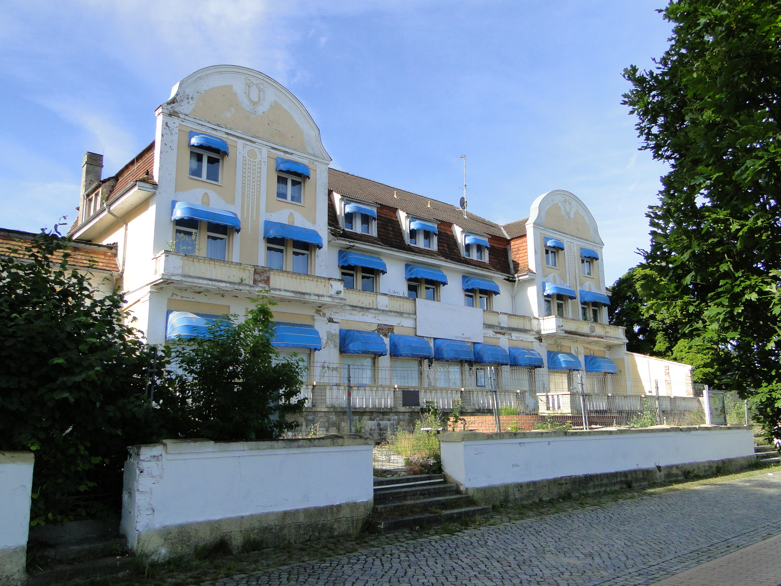 Strandhotel Zippendorf in Schwerin, Mecklenburg-Vorpommern, Germany